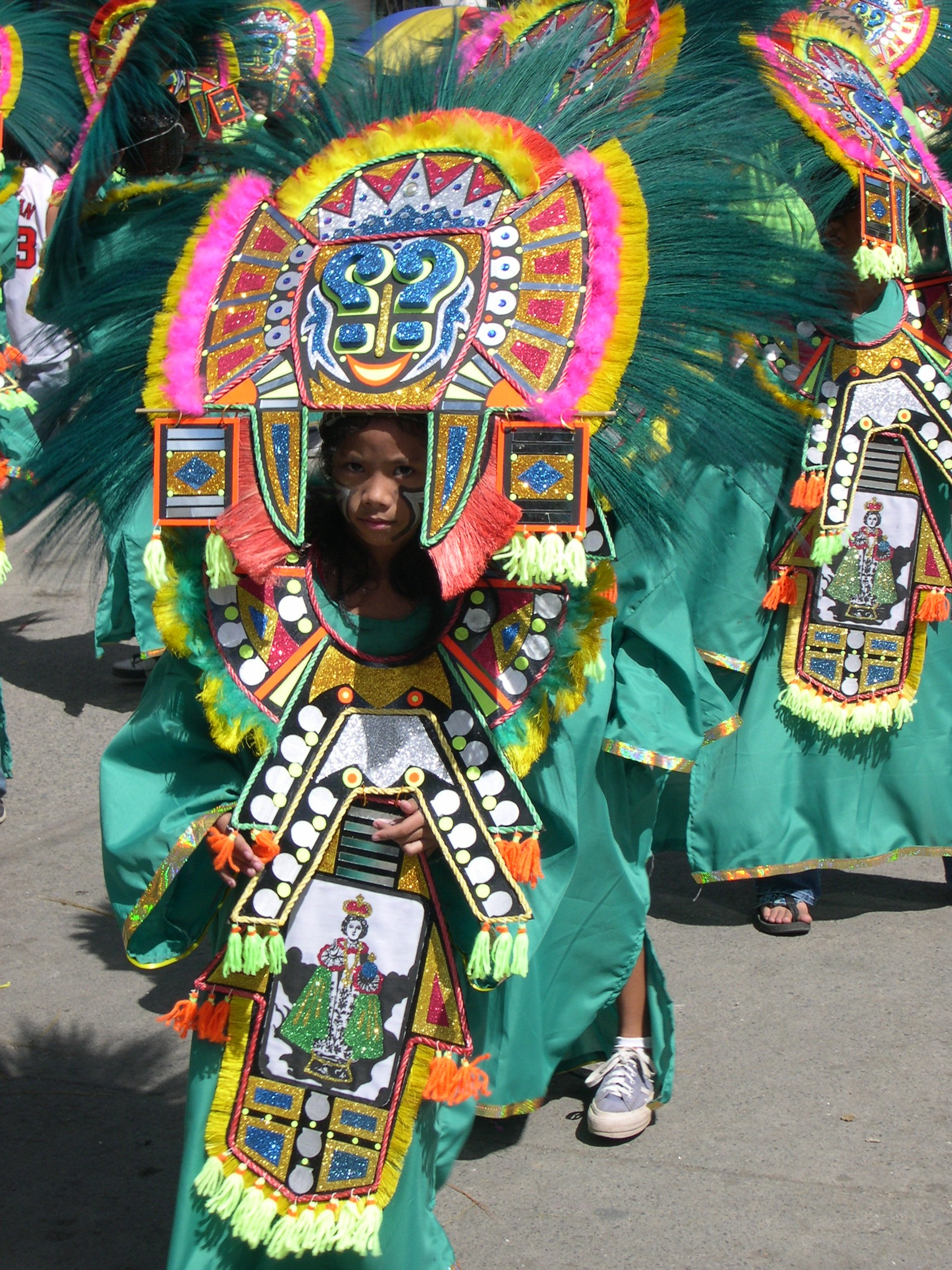 Ati-Atihan festival in Kalibo, Aklan, the Philippines